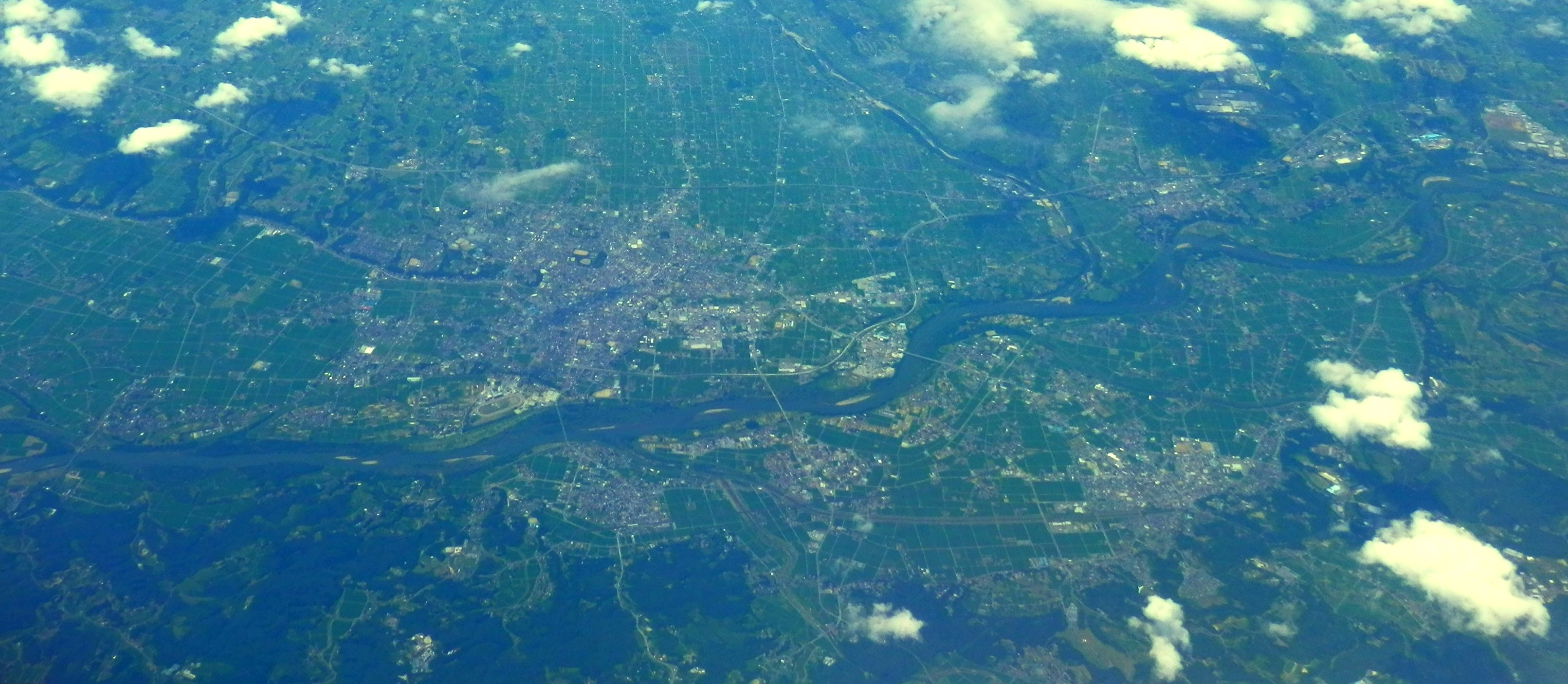 A view of Oshu, Iwate from an aeroplane.